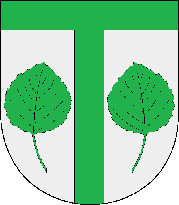 Coat of arms of the municipality Timmaspe in Schleswig-Holstein, Germany.